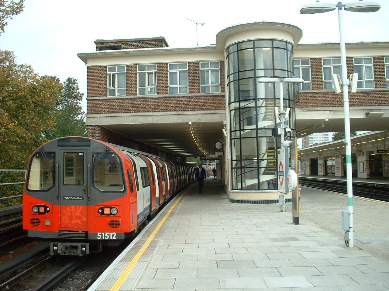 East Finchley tube station looking north, with northbound Northern line train in platform. Sunil060902, 8th October 2007.